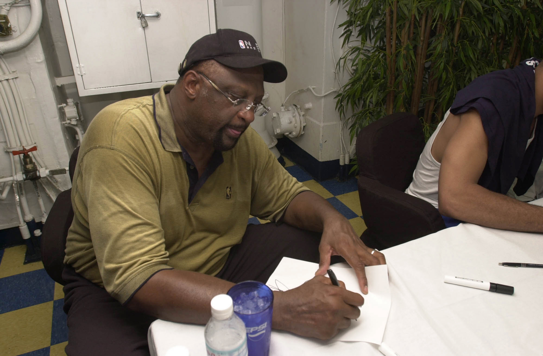 The Arabian Gulf (Jun. 19, 2003) -- National Basketball Association (NBA) Legend and Hall of Fame member Bob Lanier signs autographs for USS Nimitz (CVN-68) and Carrier Air Wing Eleven (CVW-11) sailors during a recent United Services Organization (USO) show. Nimitz Carrier Strike Group and CVW-11 are deployed in support of Operation Iraqi Freedom. Operation Iraqi Freedom is the multi-national coalition effort to liberate the Iraqi people, eliminate Iraq’s weapons of mass destruction, and end the regime of Saddam Hussein. U.S. Navy photo by Photographer’s Mate 2nd Class Michelle Smith. (RELEASED)